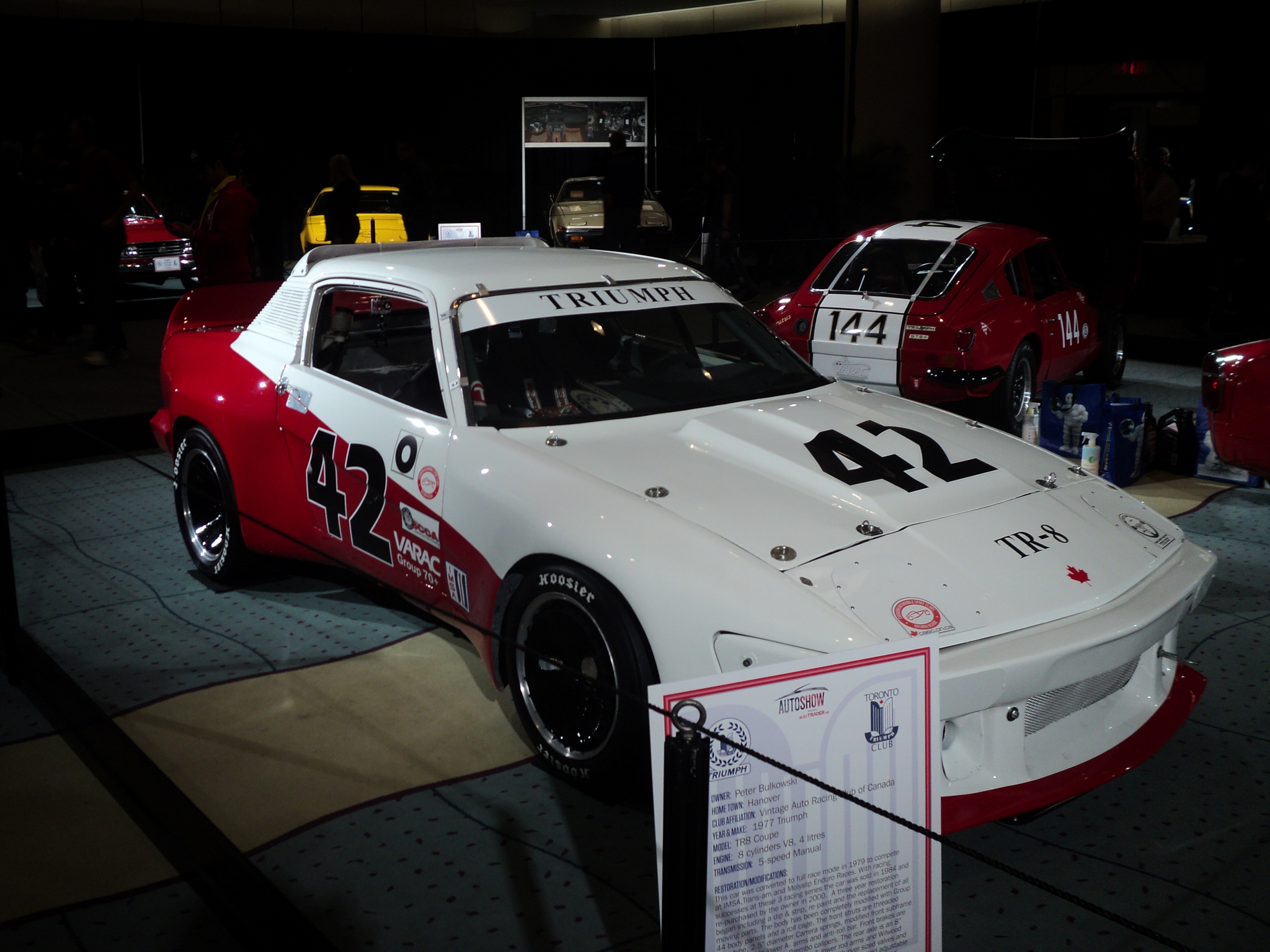 Had a display of classic Triumph vehicles, this was a TR-8 race car from the 1970's.